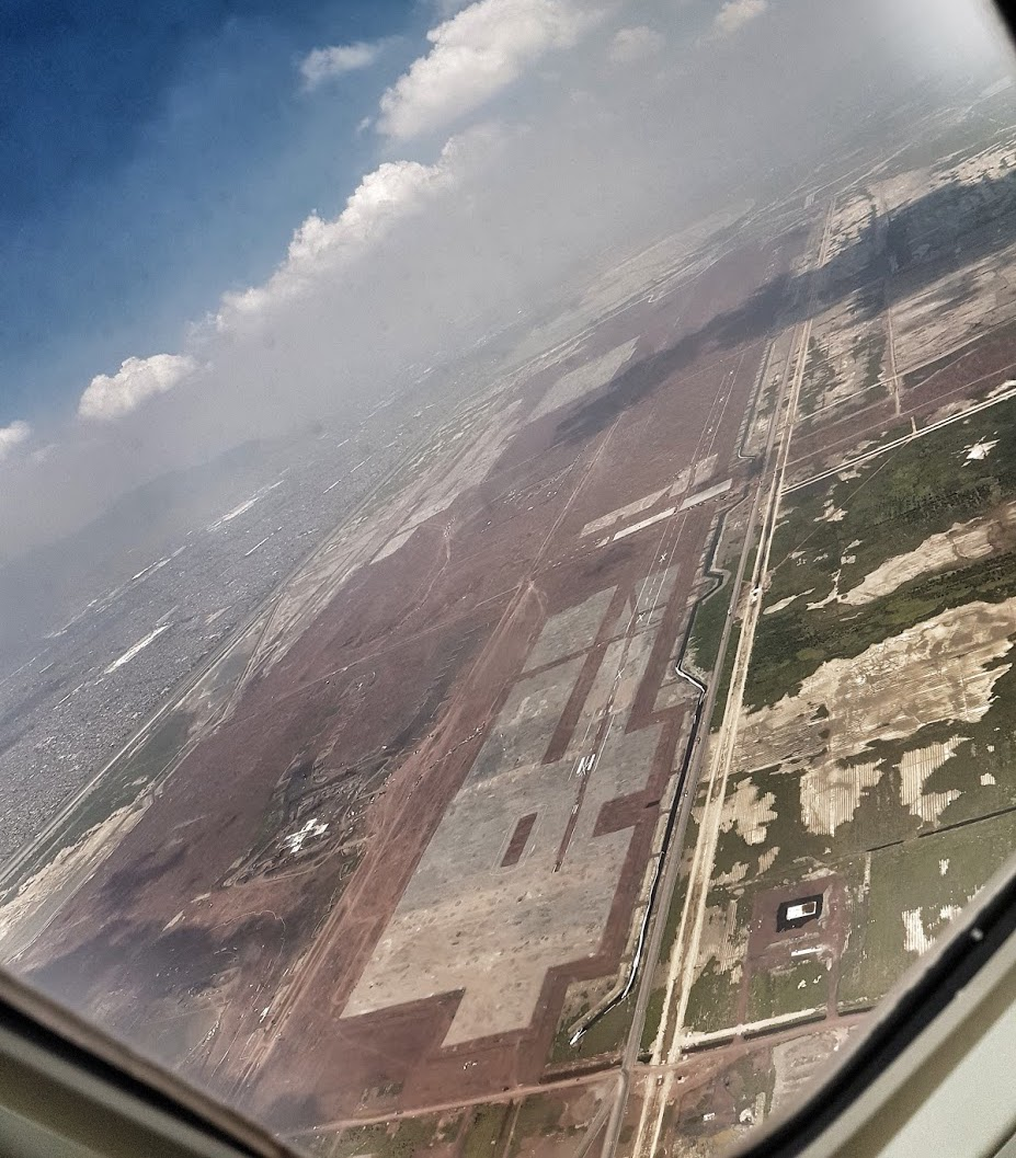 Aerial view of the new Mexico City Airport site, August 2017